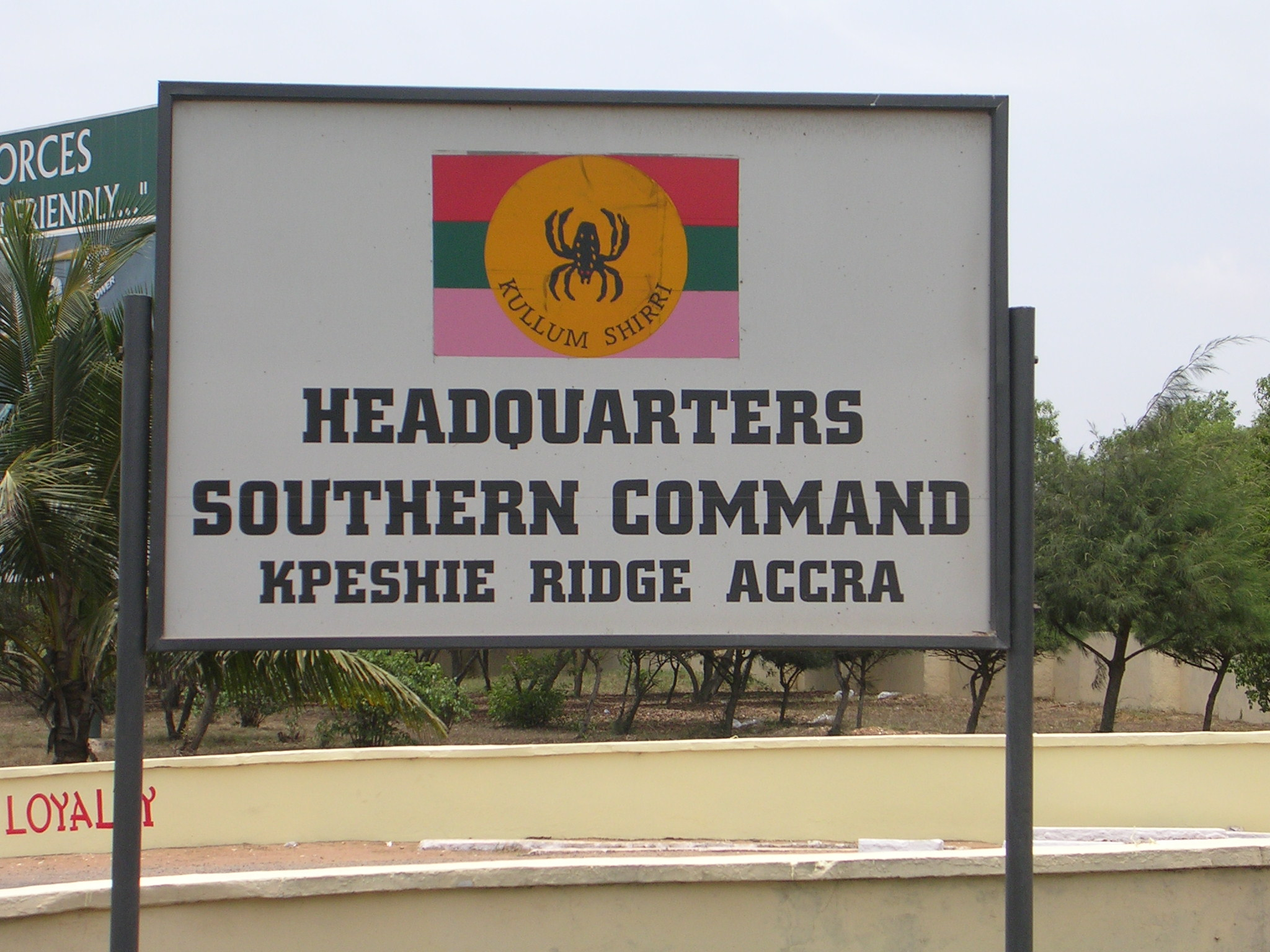 Gate sign, Headquarters Southern Command, Ghana Army, Accra, April 2009